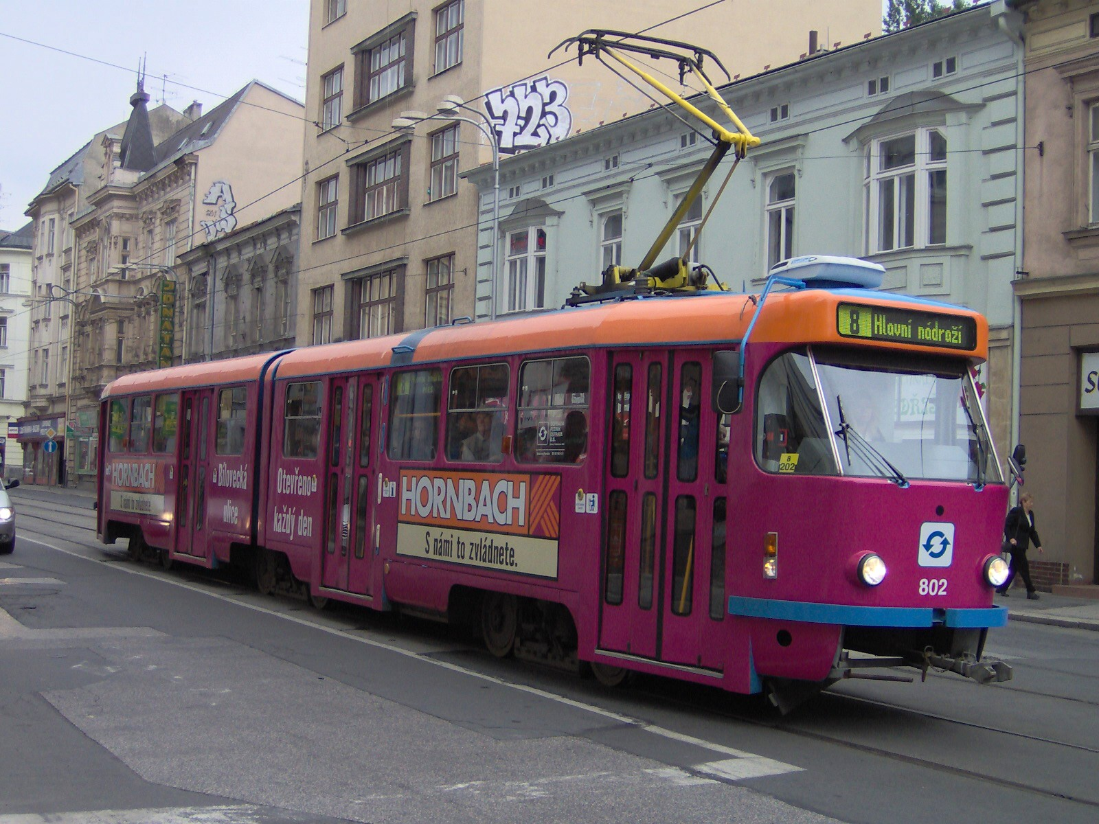 K2P tram in Ostrava